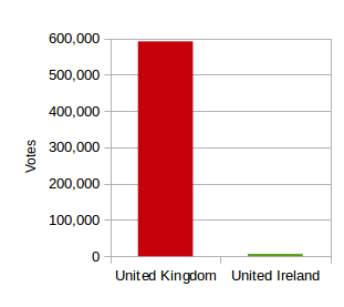 Bar chart showing the result of the border poll in Northern Ireland in 1973.